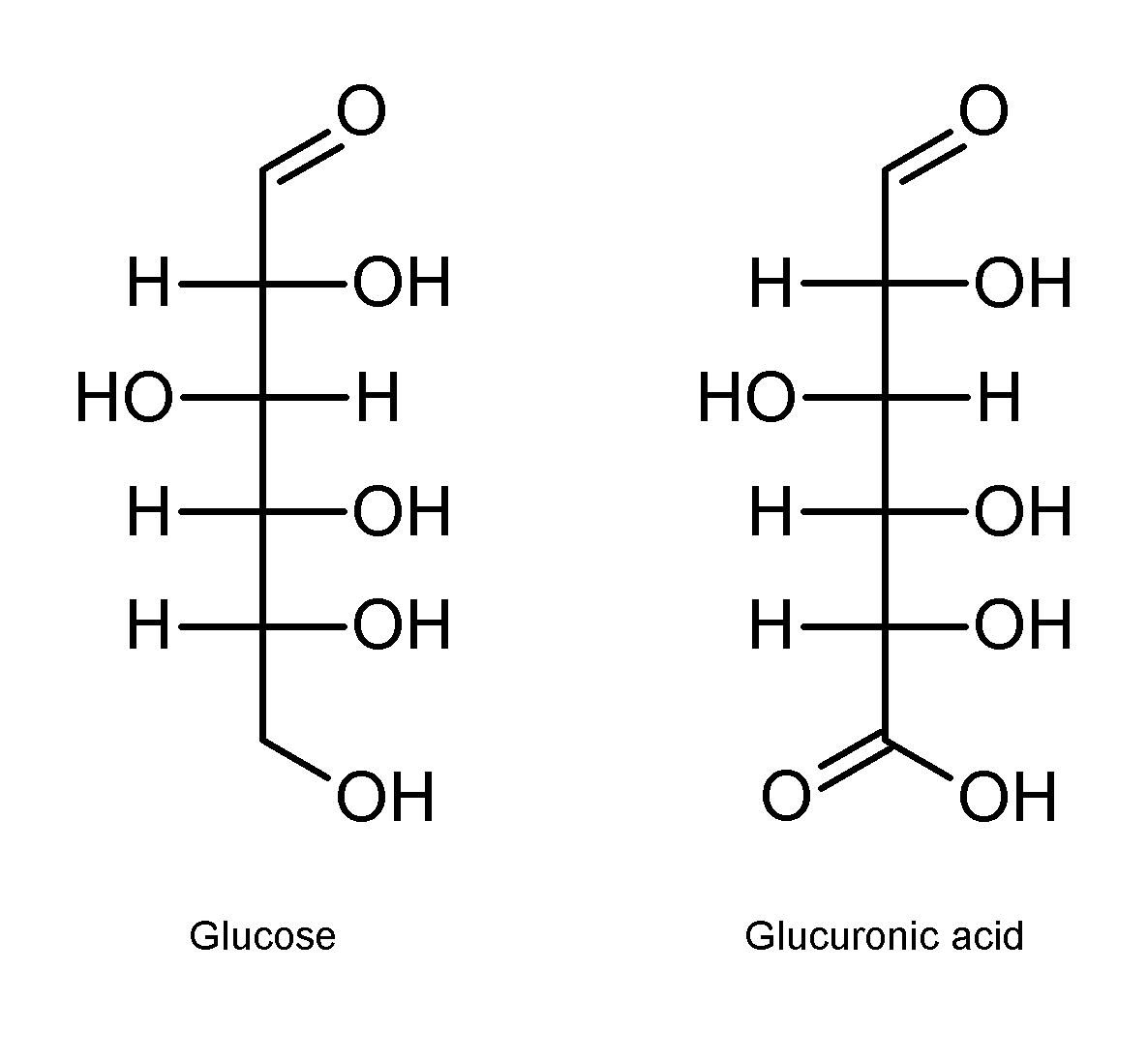 Replacing Glucuronic.png created by . Was originally tagged as follows: I drew this image to illustrate the connection between sugars and their uronic acids for my uronic acid article. Maintaining original public domain tags.